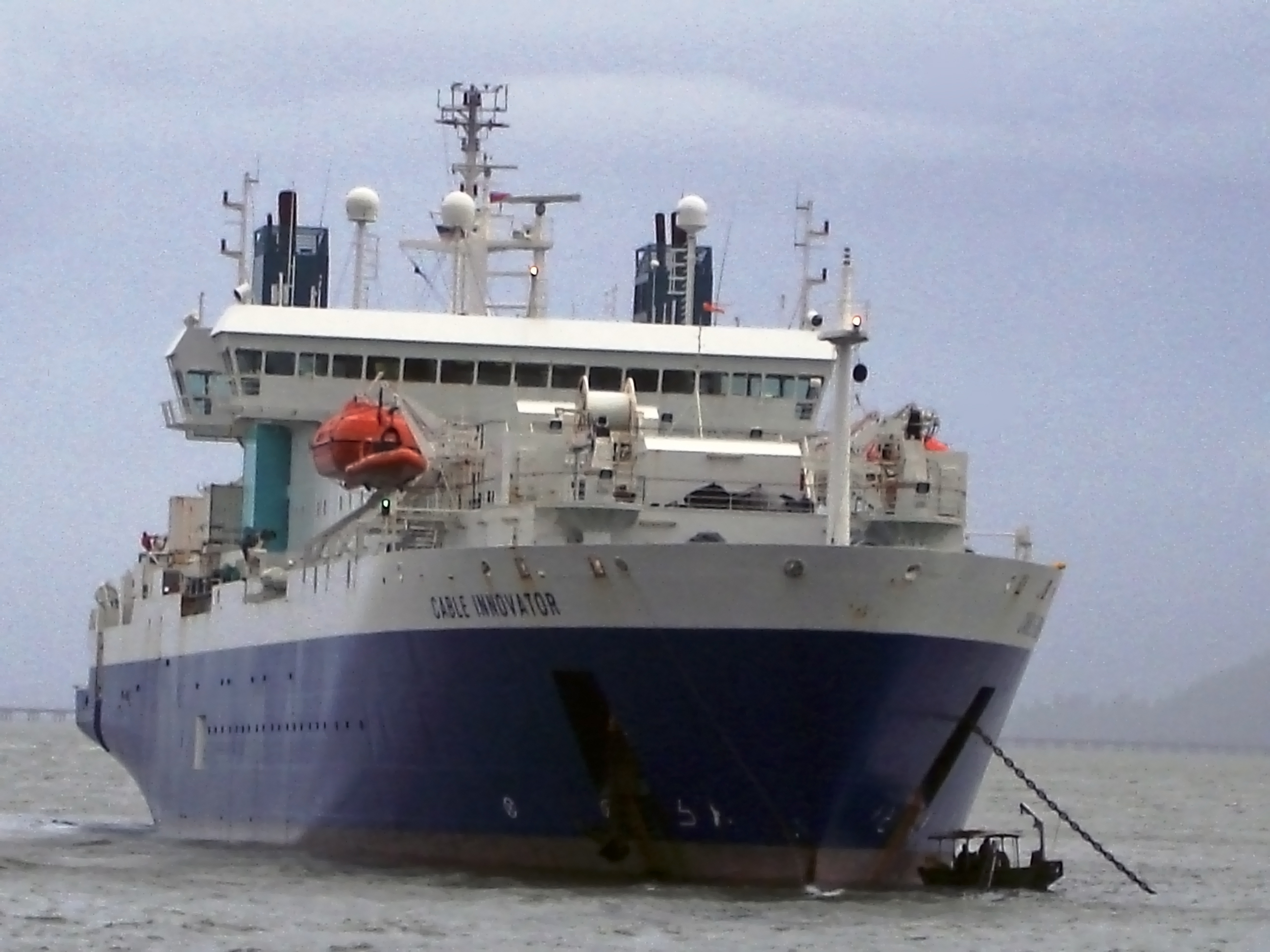 Ship Cable Innovator